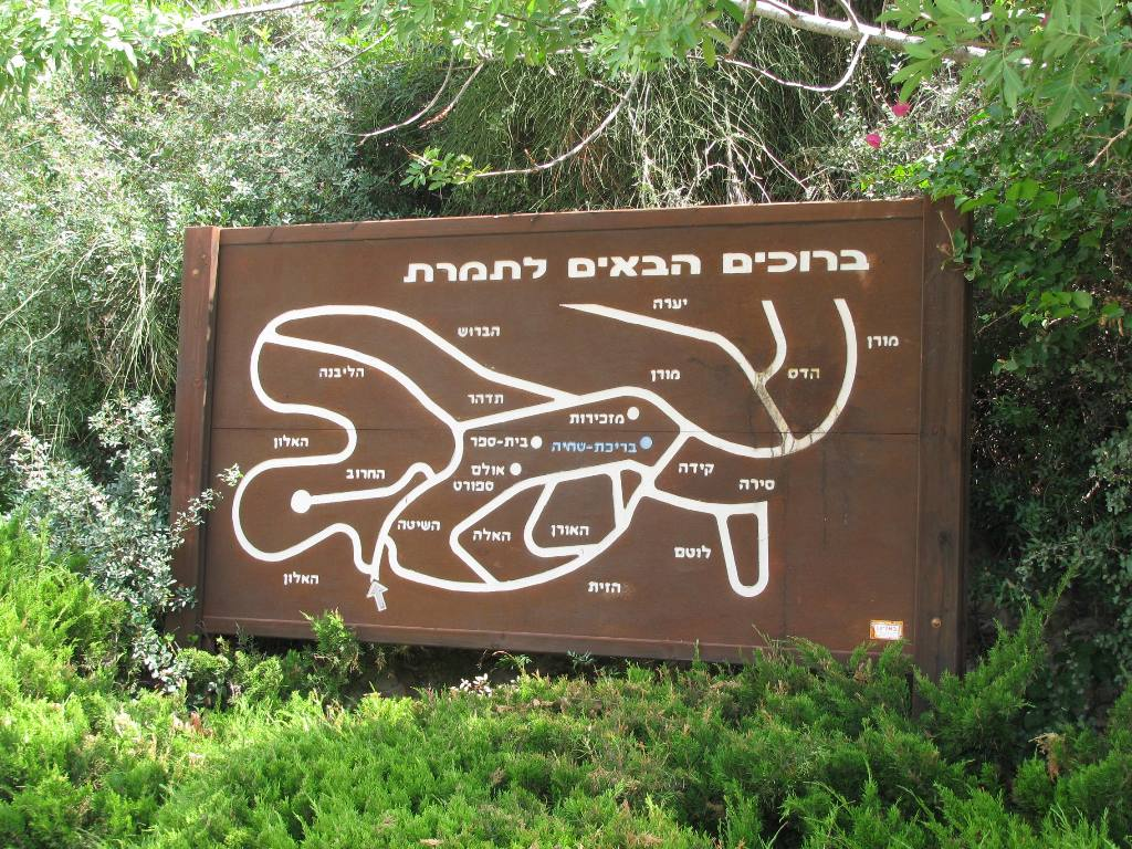 Map at the entrance to Timrat